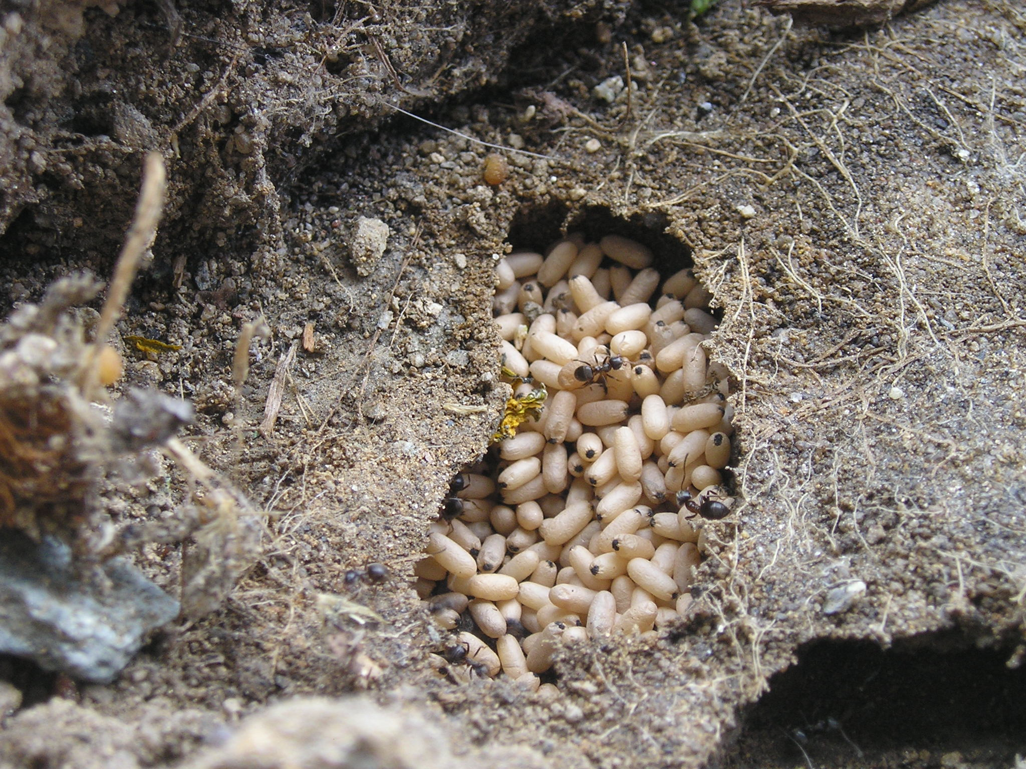 Black garden ant (Lasius linger) nest